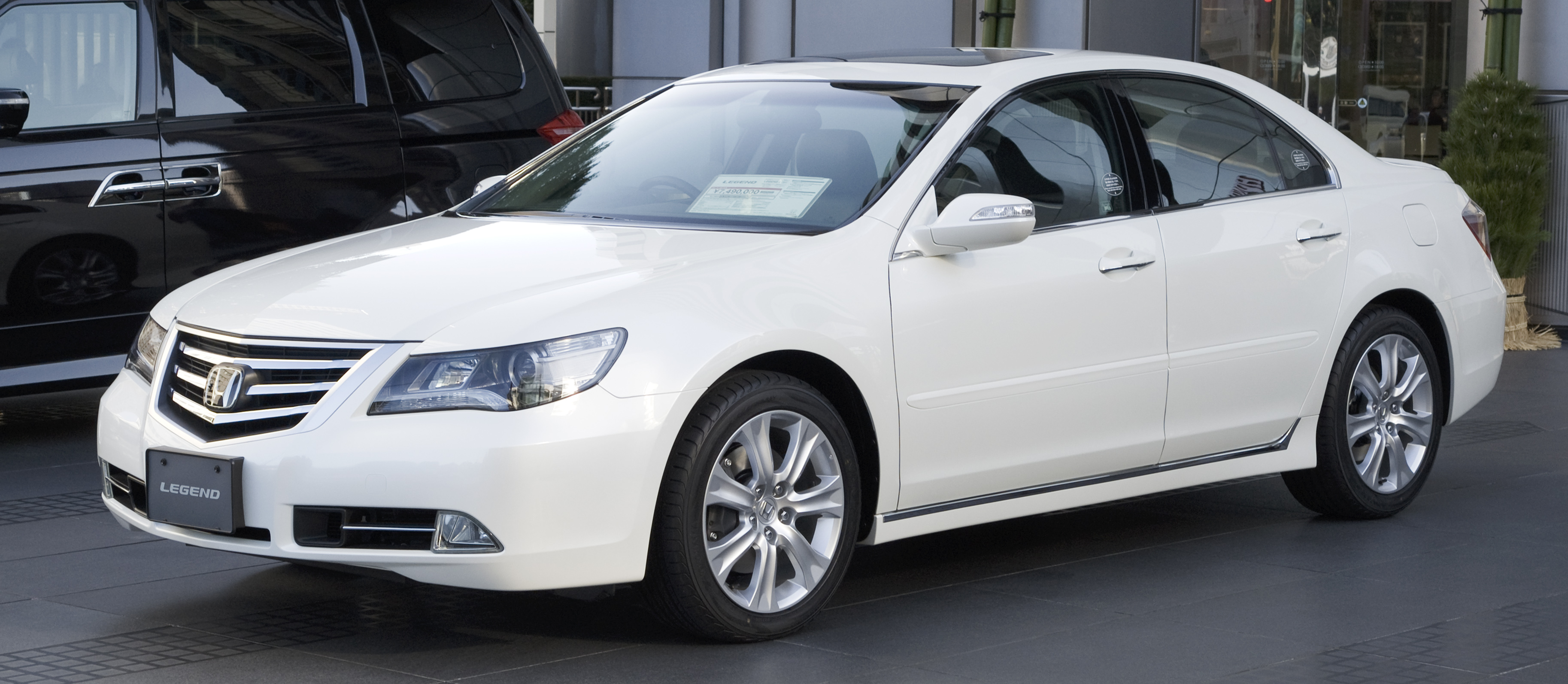 2008 4th generation Honda Legend